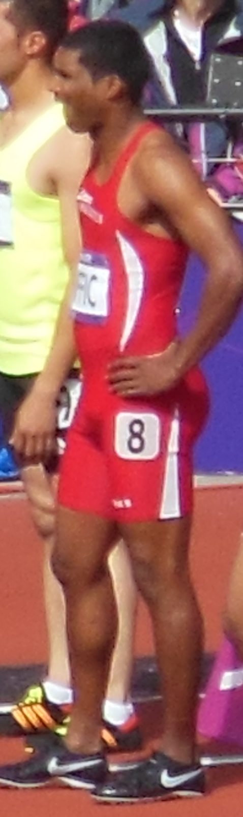 Athletics at the 2012 Summer Olympics – Men's 100 metres, Preliminaries heat 4: Fabrice Coiffic